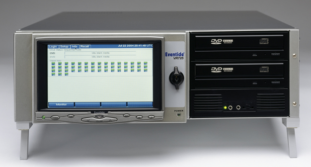 VR725 Communications Recorder